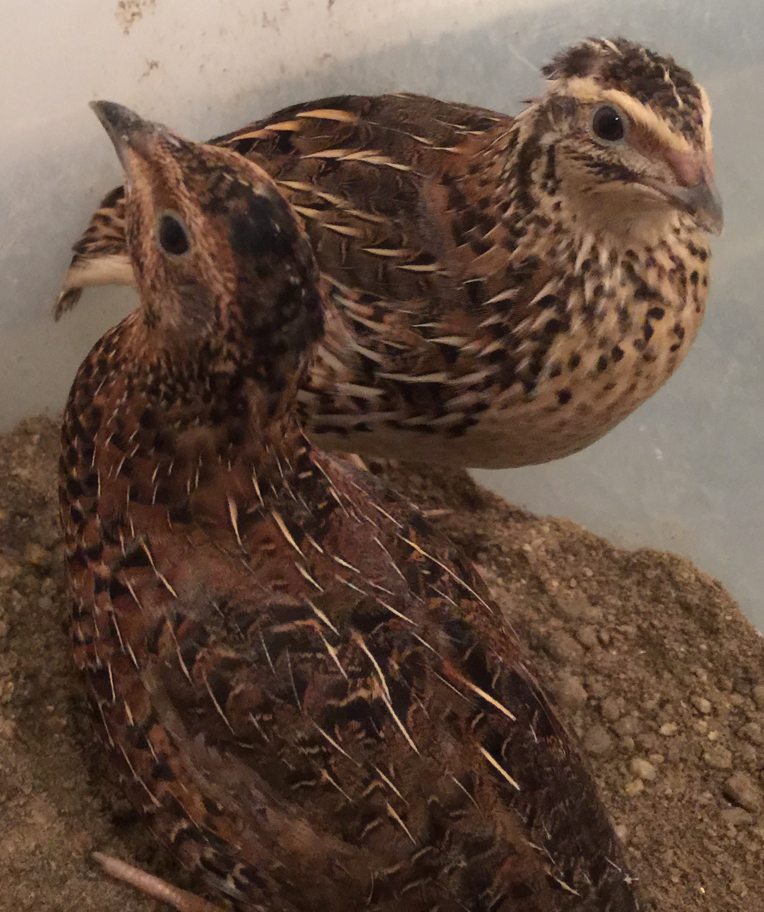 adlut_Coturnix japonica (Front Male / back Female)